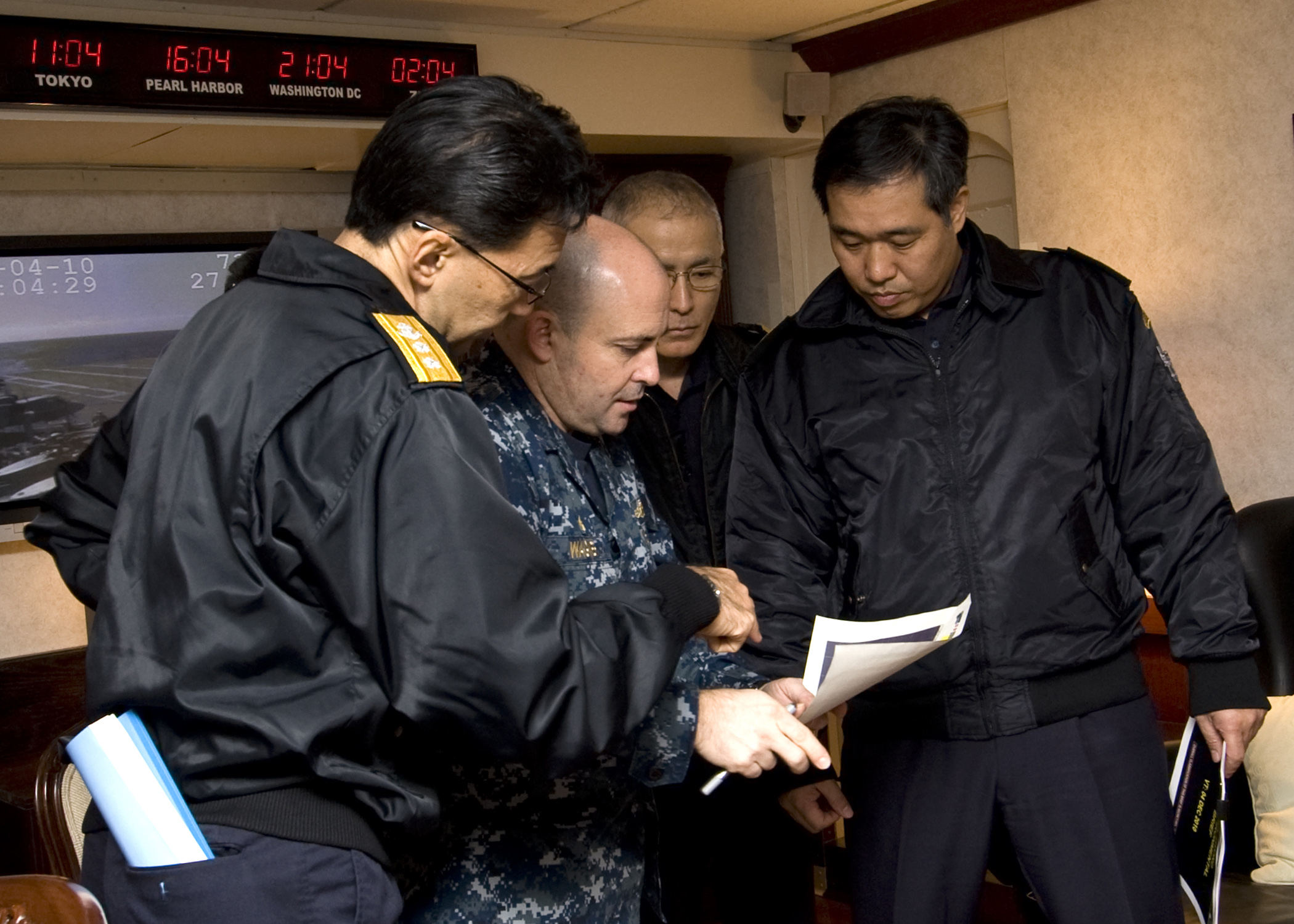 PACIFIC OCEAN (Dec. 4, 2010) Capt. William Wagner, center, commander of Destroyer Squadron (DESRON) 15 briefs Japan Maritime Self-Defense Force admirals about the schedule of events aboard the aircraft carrier USS George Washington (CVN 73). George Washington is participating in Keen Sword 2010, a scheduled joint exercise with the Japan Maritime Self-Defense Force through Dec. 10. (U.S. Navy photo by Mass Communication Specialist Seaman Cheng S. Yang/Released)